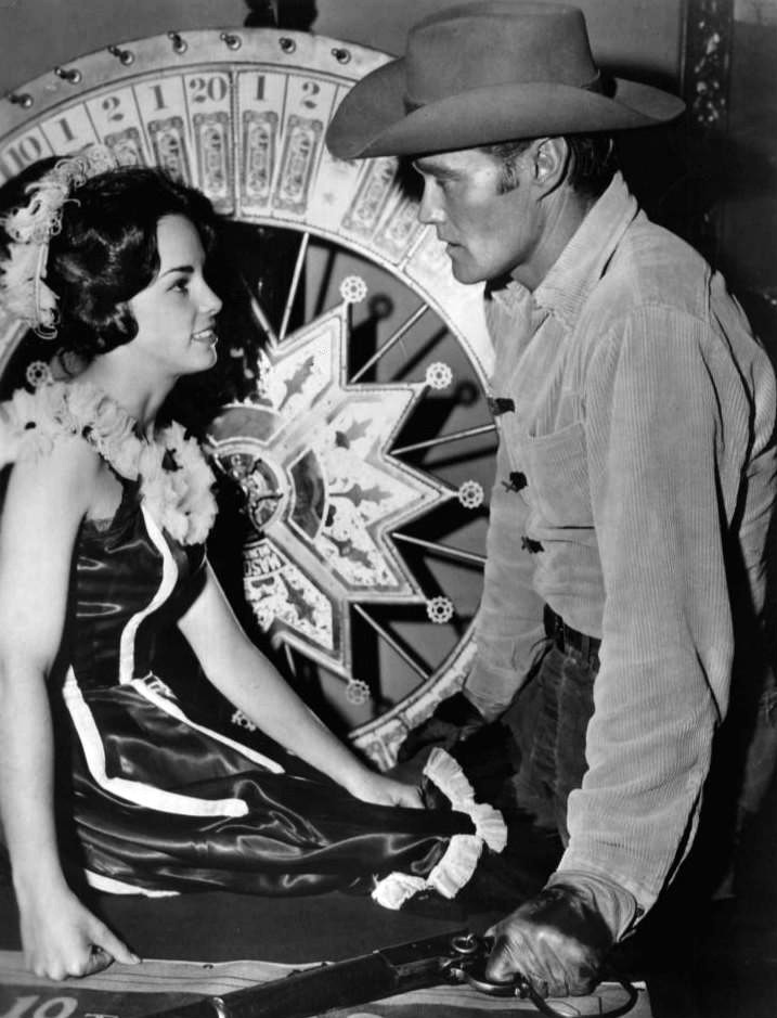 Photo of Chuck Connors as Lucas McCain and guest star Beverly Englander from the television program The Rifleman.